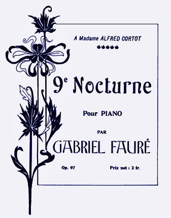 Frontispiece from the Heugel edition of Gabriel Fauré's Ninth Nocturne (1908).